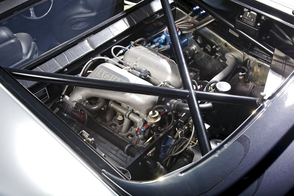 XJ220 Engine View